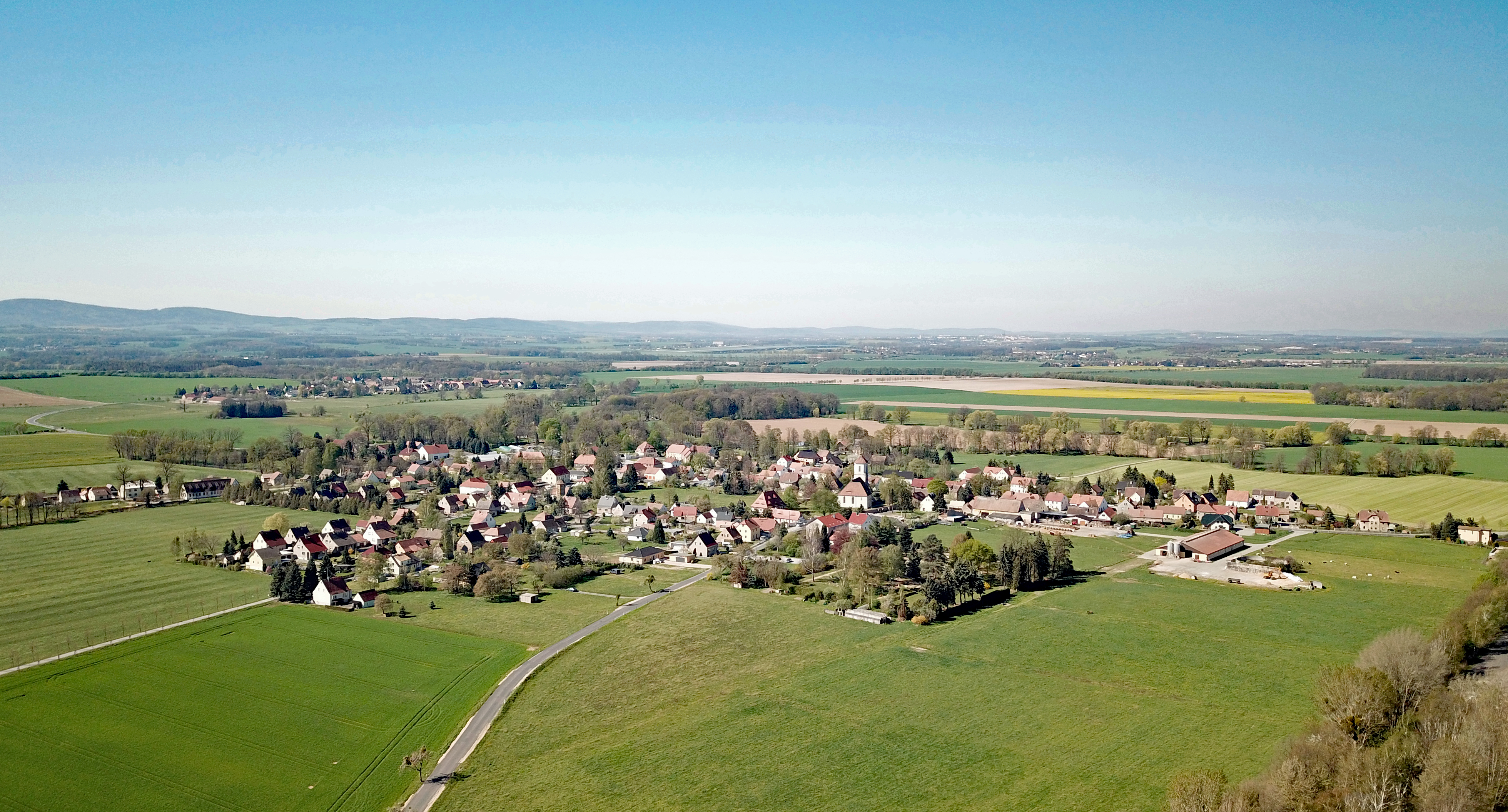 Baruth, Malschwitz, Saxony, Germany Hornjoserbsce: Powětrowy wobraz Barta Dieses Foto wurde mit einem Quadcopter innerhalb der RMZ des Flugplatzes EDAB aufgenommen. Der Flugleiter wurde am Aufnahmetag telephonisch über Ort und Zeit informiert und hat zugestimmt. Der Flug erfolgte auf Grundlage der Allgemeinverfügung der Landesdirektion Sachsen zur Erteilung der Betriebserlaubnis für unbemannte Luftfahrtsysteme und Flugmodelle gemäß § 21a LuftVO und Zulassung von Ausnahmen von Betriebsverboten gemäß § 21b LuftVO für den Freistaat Sachsen.